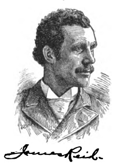 Drawing of James R. Reid, president of Montana State College, in 1896.